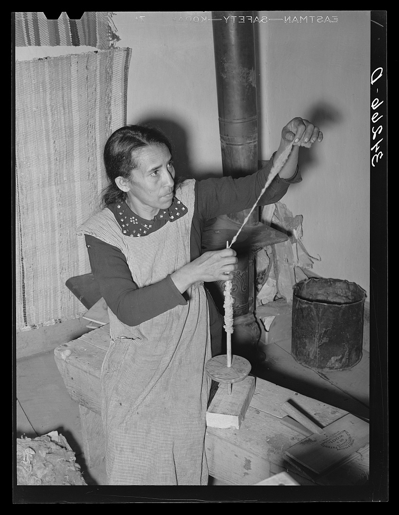 Spanish-American woman spinning woolen thread at WPA (Works Progress Administration/Work Projects Administration) project. Costilla, New Mexico